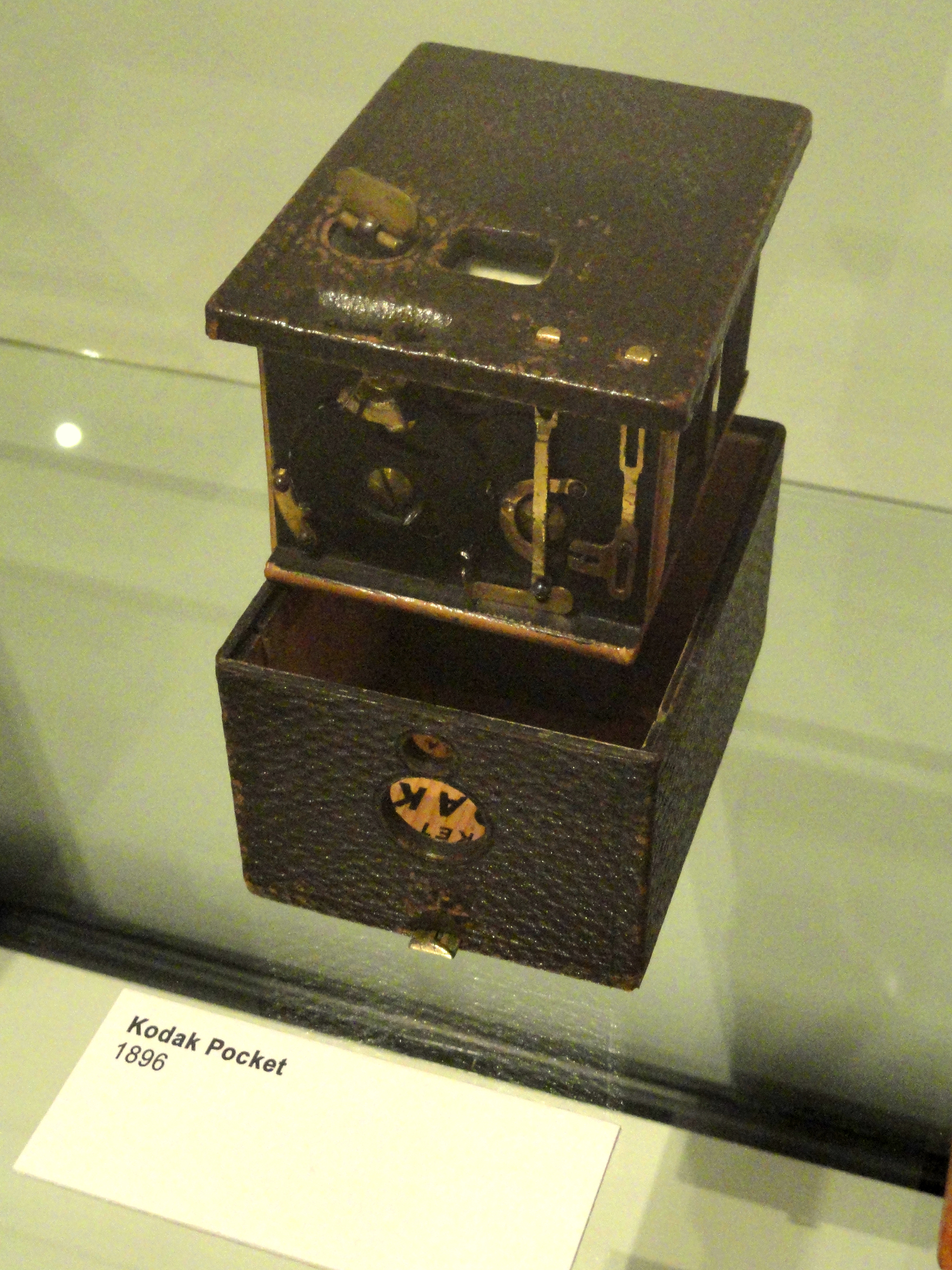 Kodak Pocket camera, stated date of 1896. Possibly this is a Folding Pocket KODAK Camera (collapsing front, brass fittings), 1897, the earliest date for a Kodak Pocket camera, per Kodak [1]. Exhibit in the Musée Nicéphore Niépce, 28 Quai Messageries, Saône-et-Loire, France. There were no restrictions on photography in the museum.